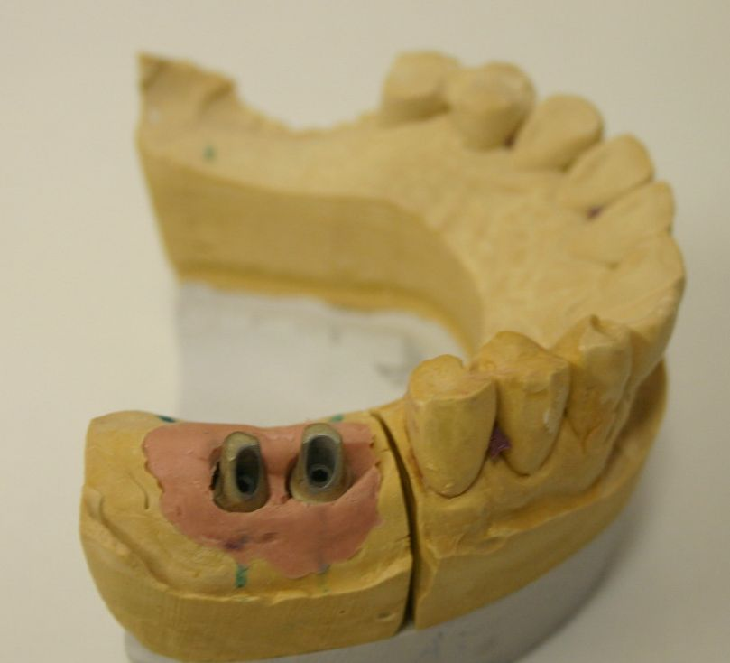 This is gum model which is usd for making crown for dental implant